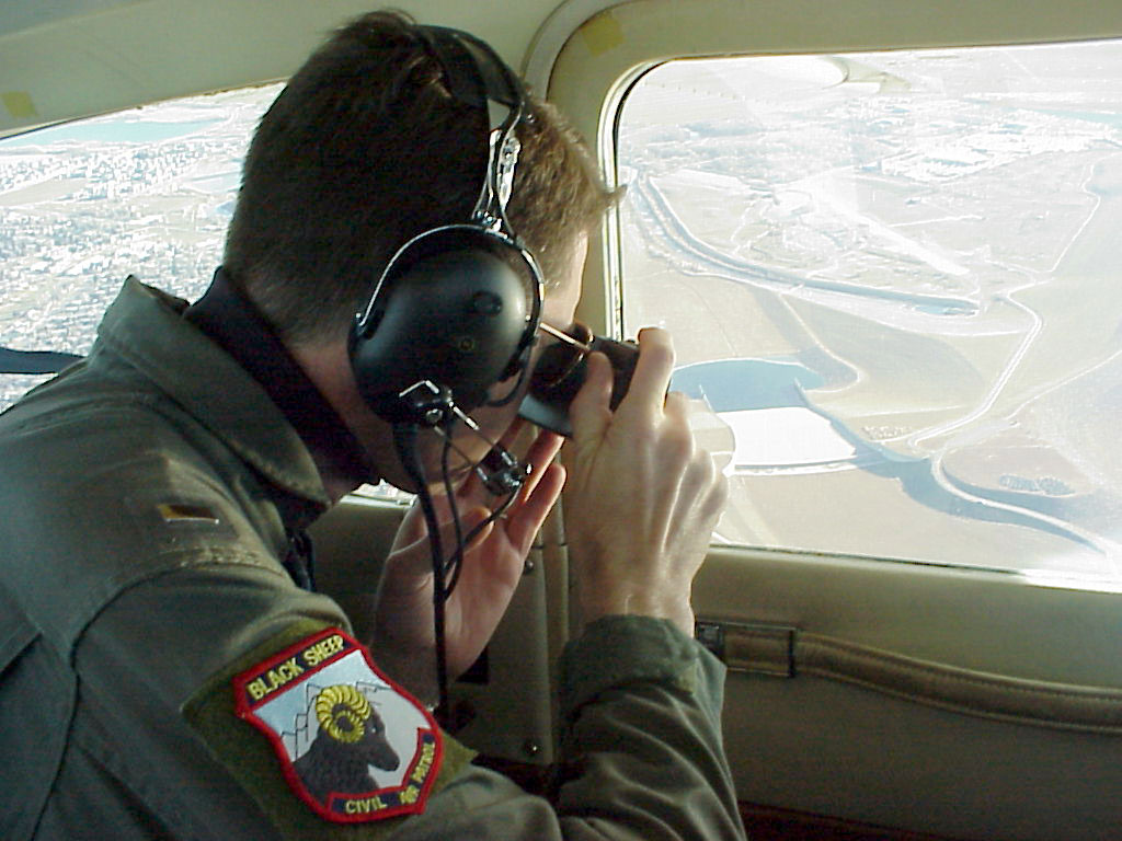 OVER COLORADO -- First Lt. Chad Morris of the Civil Air Patrol's Colorado wing photographs a sports utility vehicle from 1,000 feet during a homeland security mission simulation. After receiving a rough location, Morris and his crew established Global Positioning System coordinates, flew to the spot and started the search for the "suspicious" vehicle. (U.S. Air Force photo by Melanie LeMay)